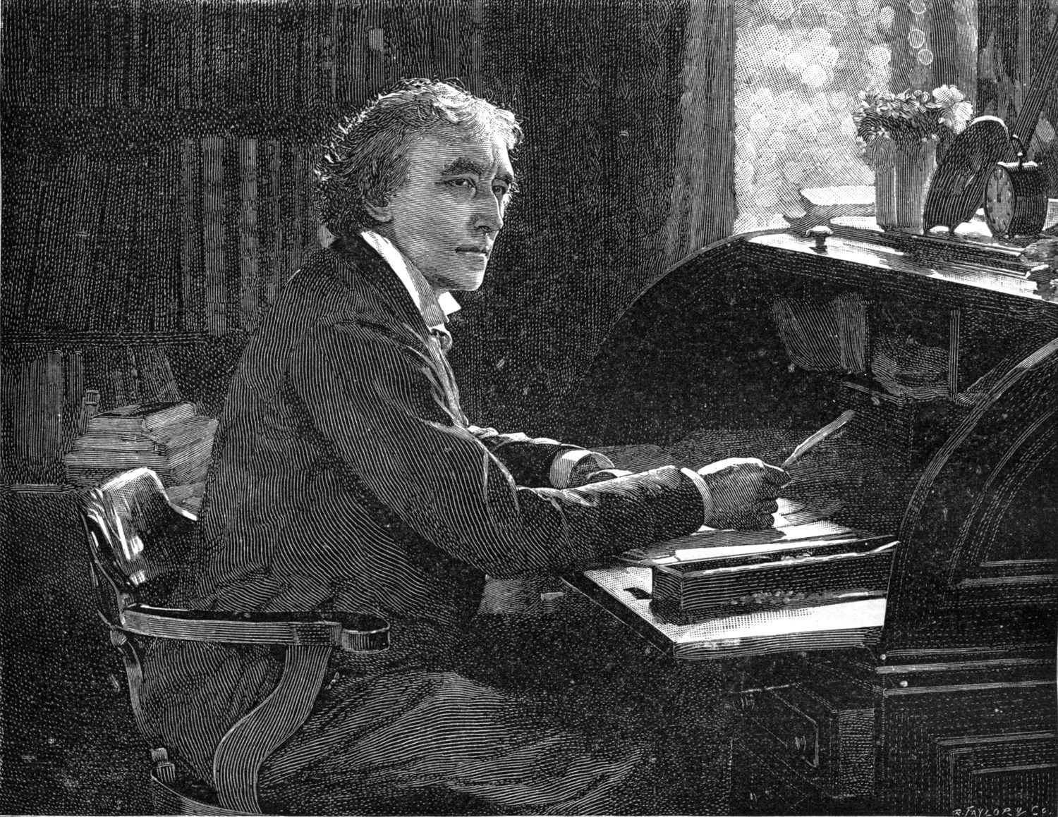 A photograph of Henry Irving taken for The Strand Magazine, No. 21, 1892. It is captioned "IN THE STUDY."